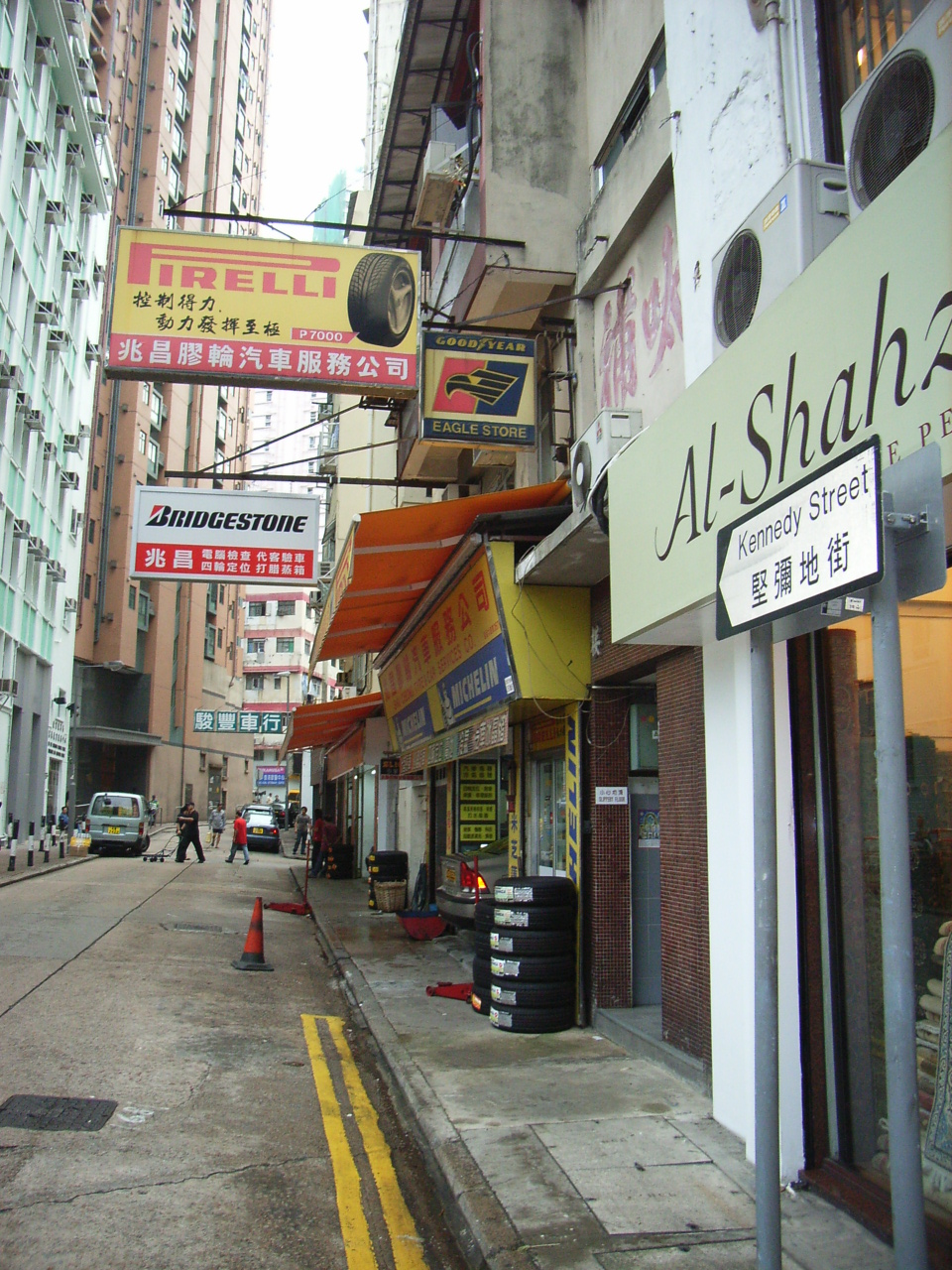 灣仔舊區街道 Wanchai old streets, Hong Kong. (A1 Wong East). 堅彌地街